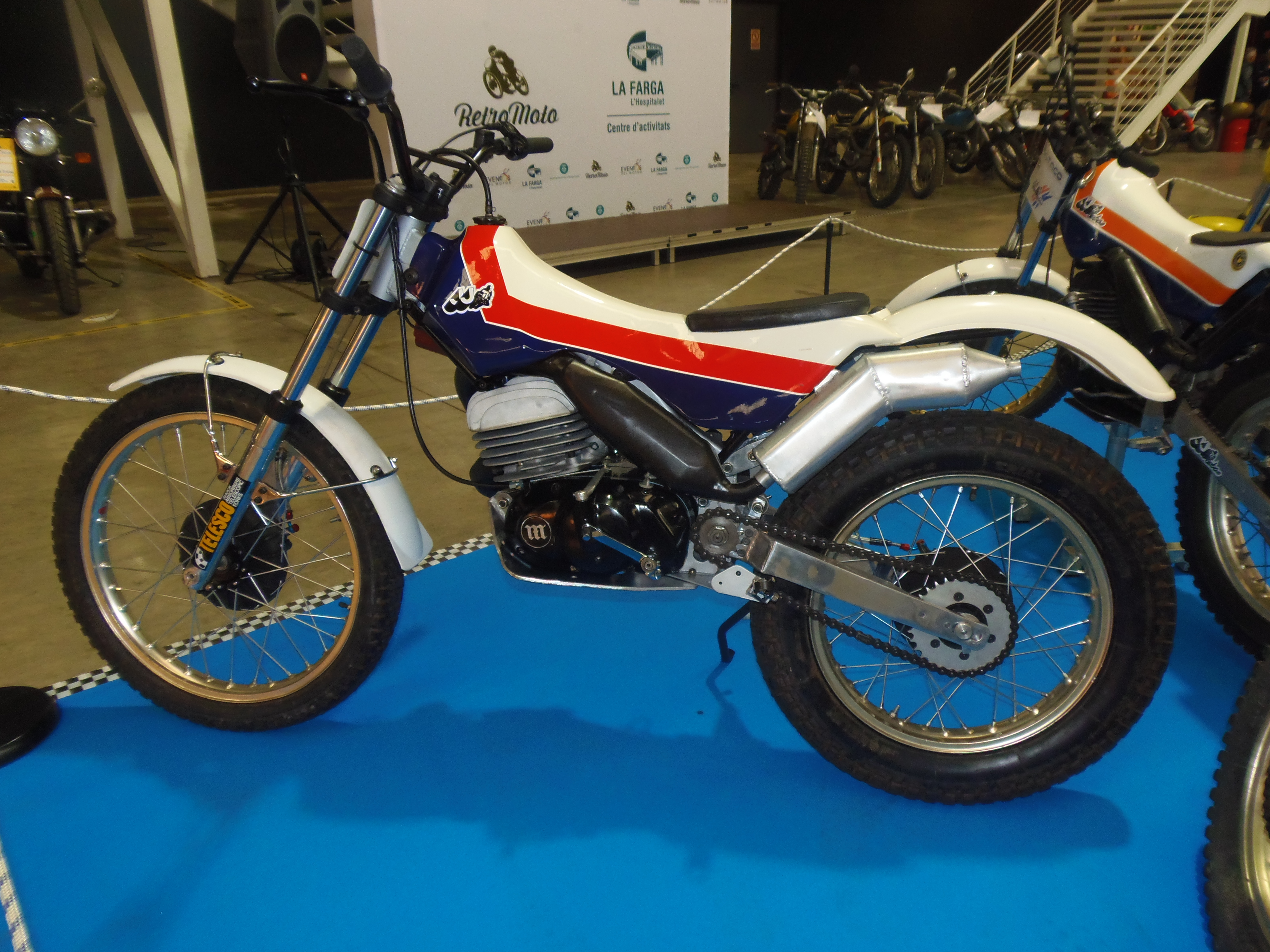 JJ Cobas RC 31 (1984), with a Montesa engine. Ridden by Toni Gorgot.